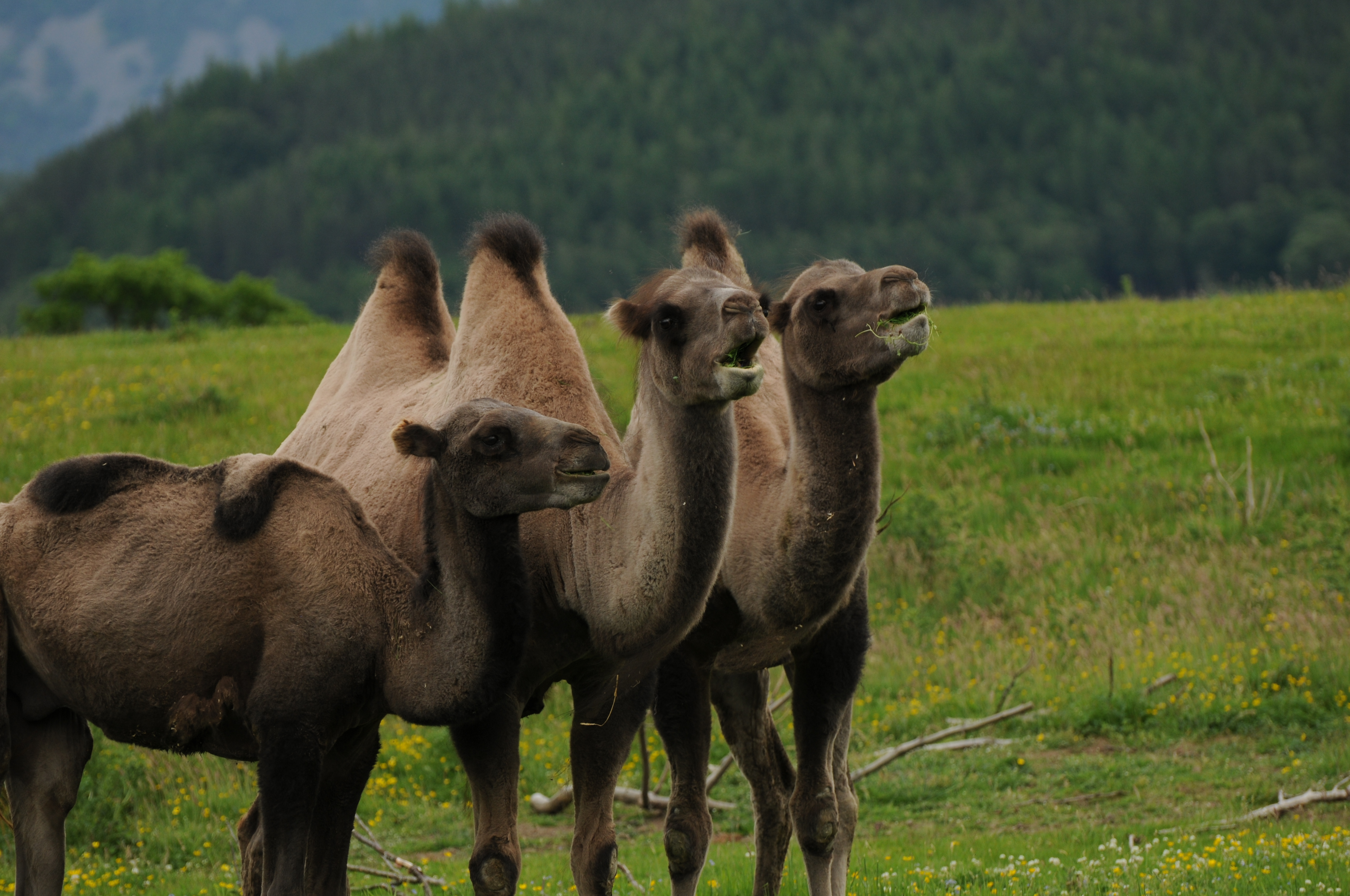 Bactrian camels at Highland Wildlife Park, Scotland.